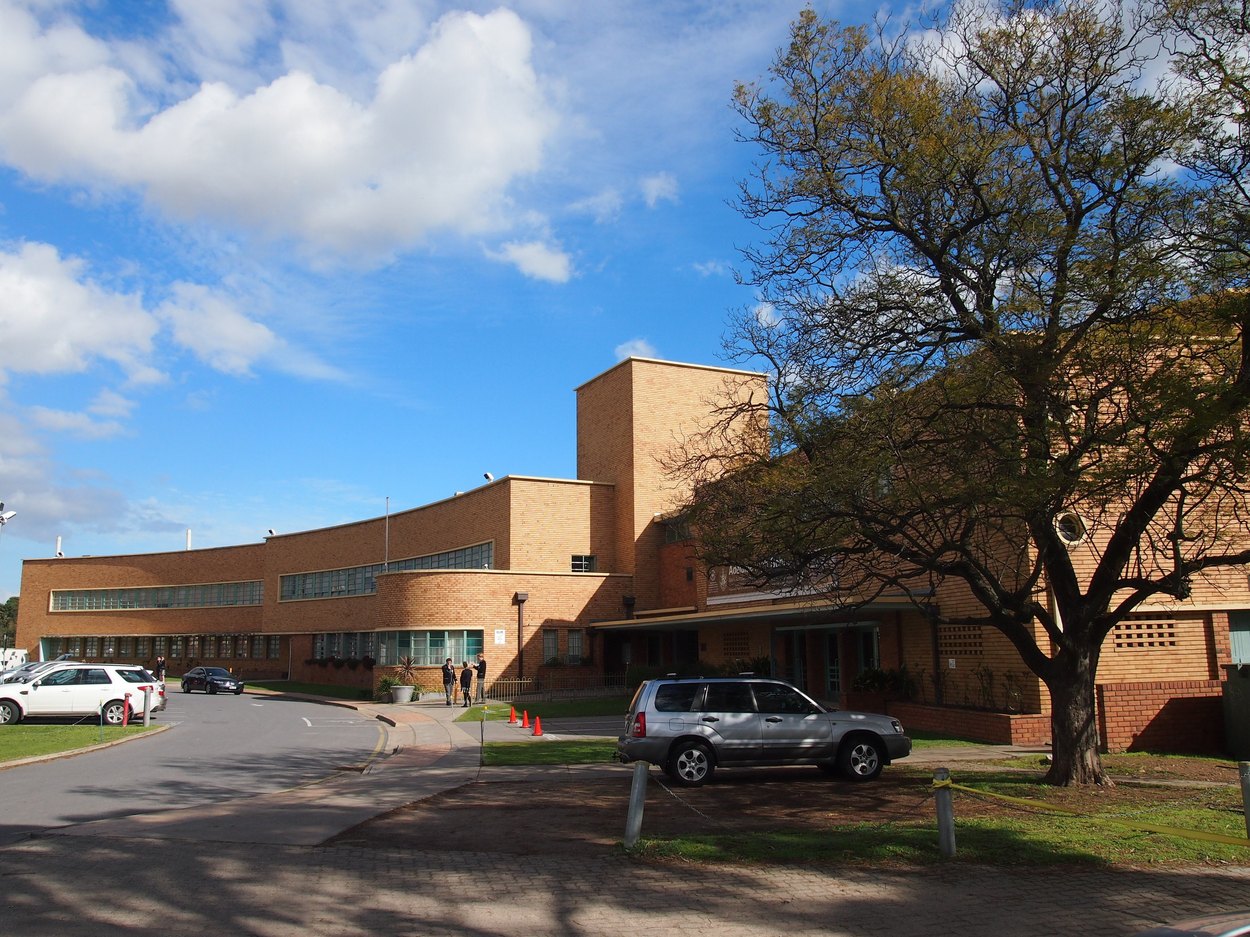 Adelaide High School, viewed from near the corner of West Terrace and Glover Avenue. Original filename = P8023713.JPG